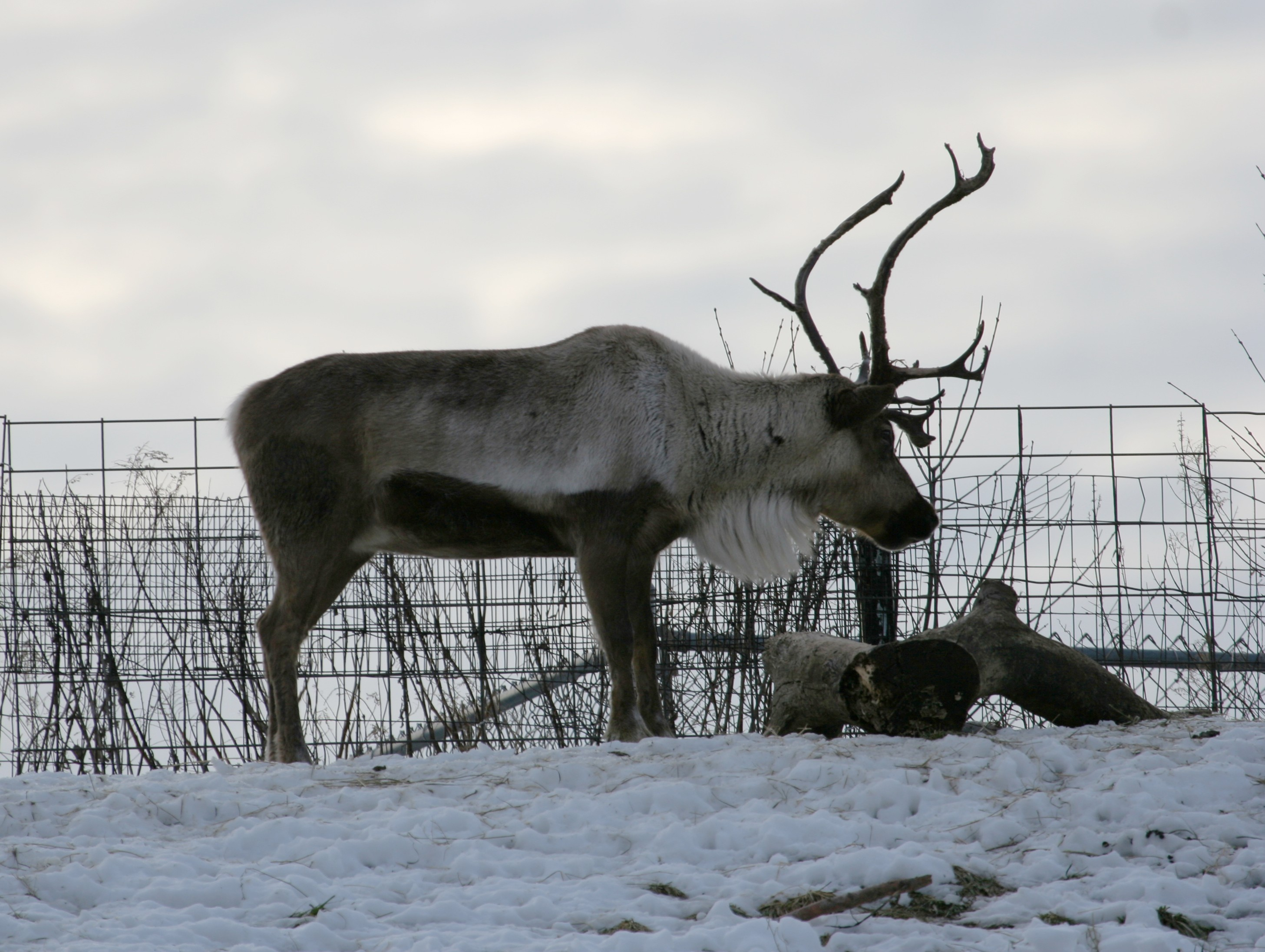 Reindeer (Rangifer tarandus) at the Rosamond Gifford Zoo, Syracuse, New York.